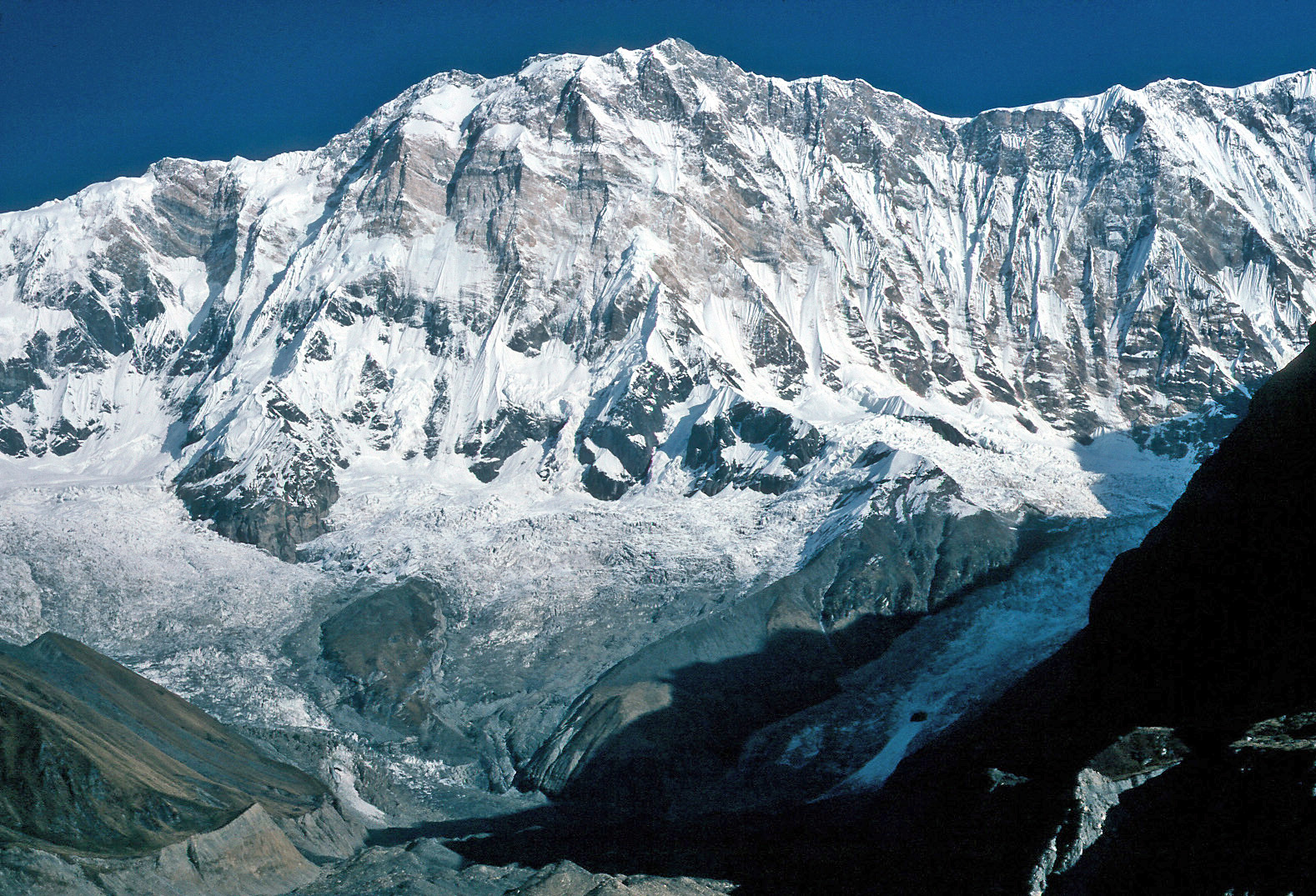 Annapurna I. from about 4500 m